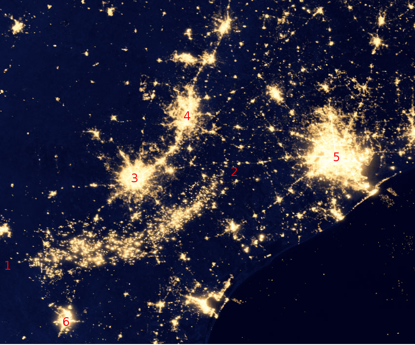 From: This image of the continental United States at night is a composite assembled from data acquired by the Suomi NPP satellite in April and October 2012. The image was made possible by the satellite's "day-night band" of the Visible Infrared Imaging Radiometer Suite (VIIRS), which detects light in a range of wavelengths from green to near-infrared and uses filtering techniques to observe dim signals such as city lights, gas flares, auroras, wildfires and reflected moonlight. Annotations added by User:Beland following information from: Eagle Ford Shale flares, western end Eagle Ford Shale flares, eastern end San Antonio, Texas Austin, Texas Houston, Texas Laredo, Texas